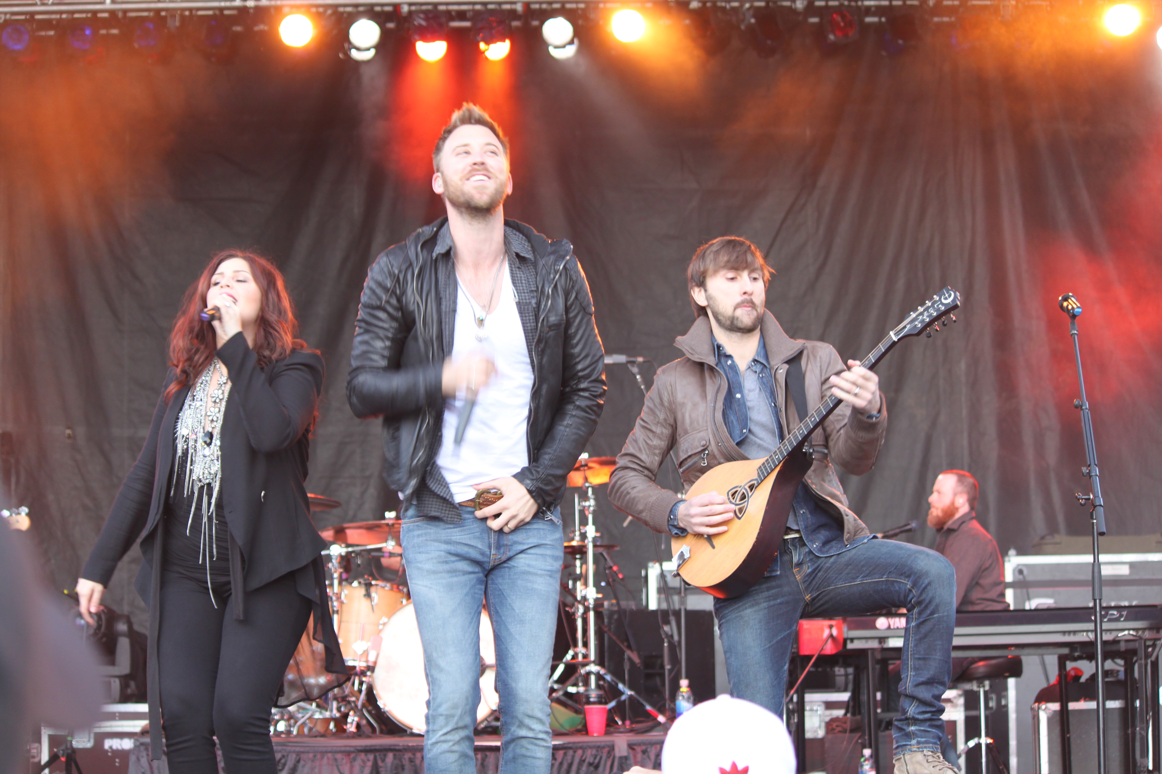 Lady Antebellum play in Charlotte